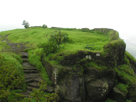 A scenic view of one section of the Karnala Fort, Maharashtra, India